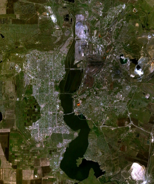 Magnitogorsk, Russia.